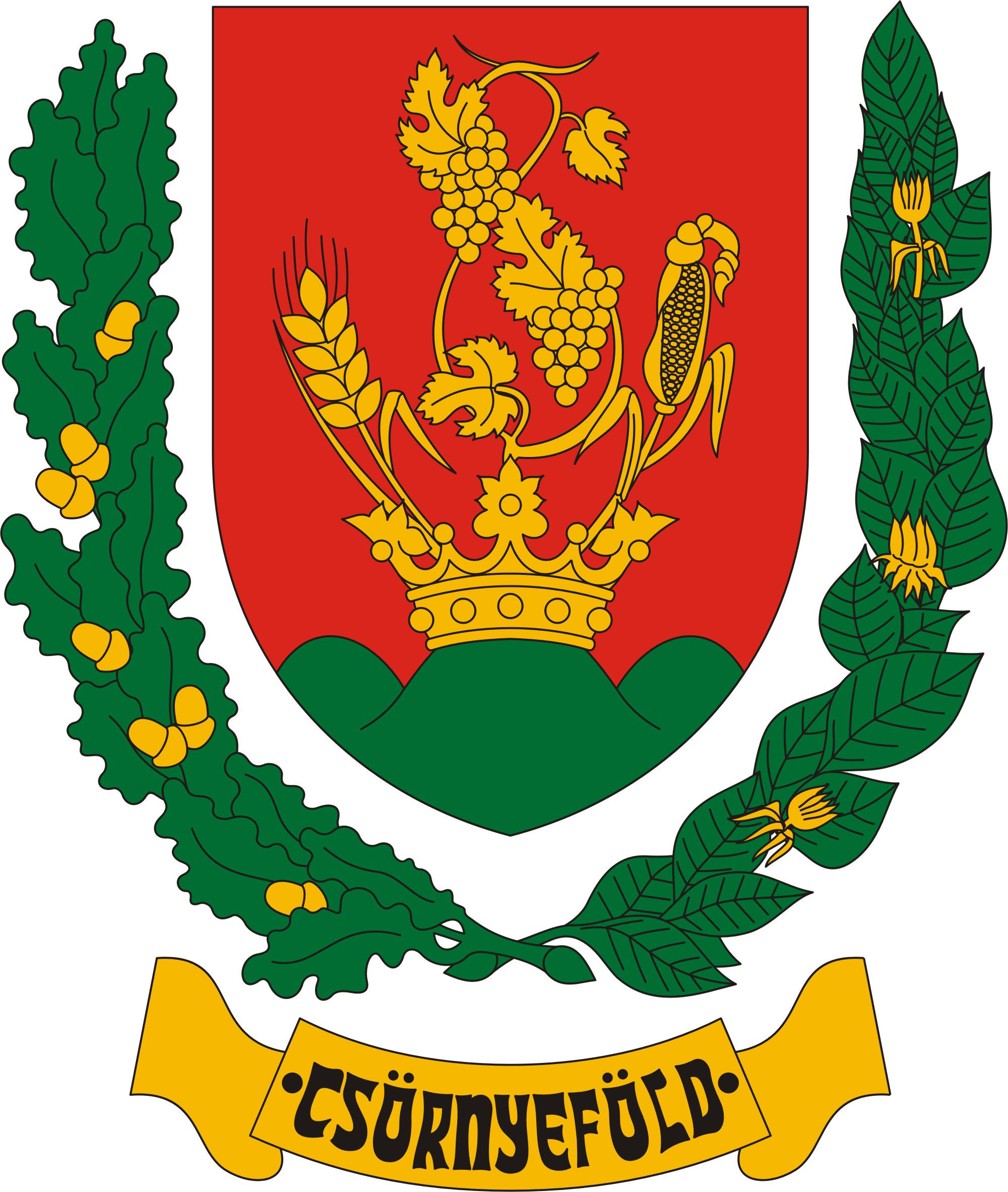 Coat of arms of Csörnyeföld, Hungary